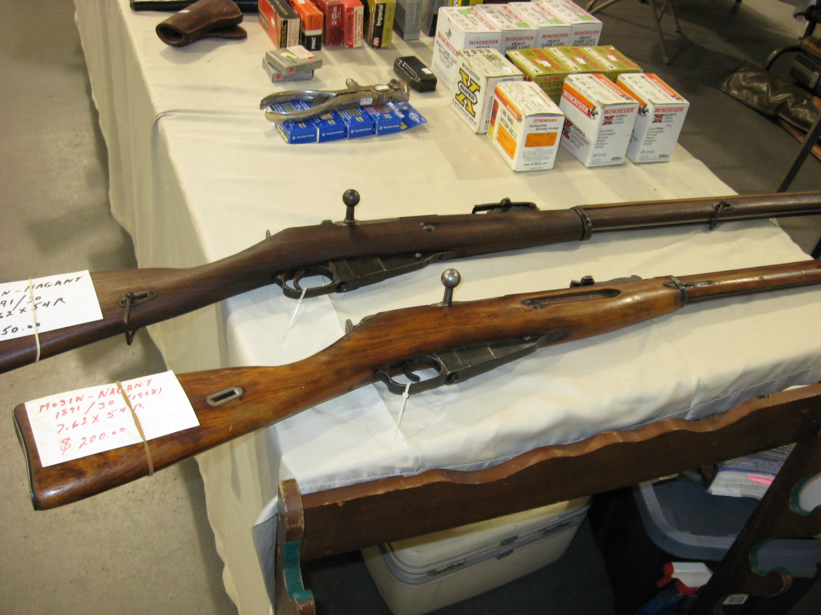 M1891/30 Mosin-Nagant 7.62x54Rmm rifles from local gun show